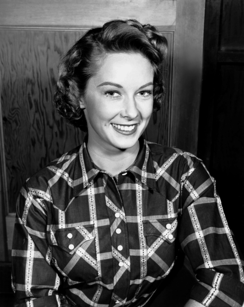 A promotional shot of Vera Miles